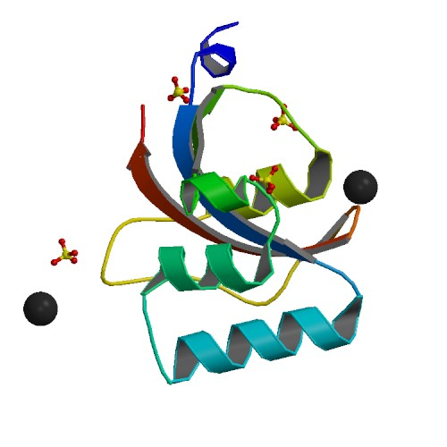 0.8 A resolution